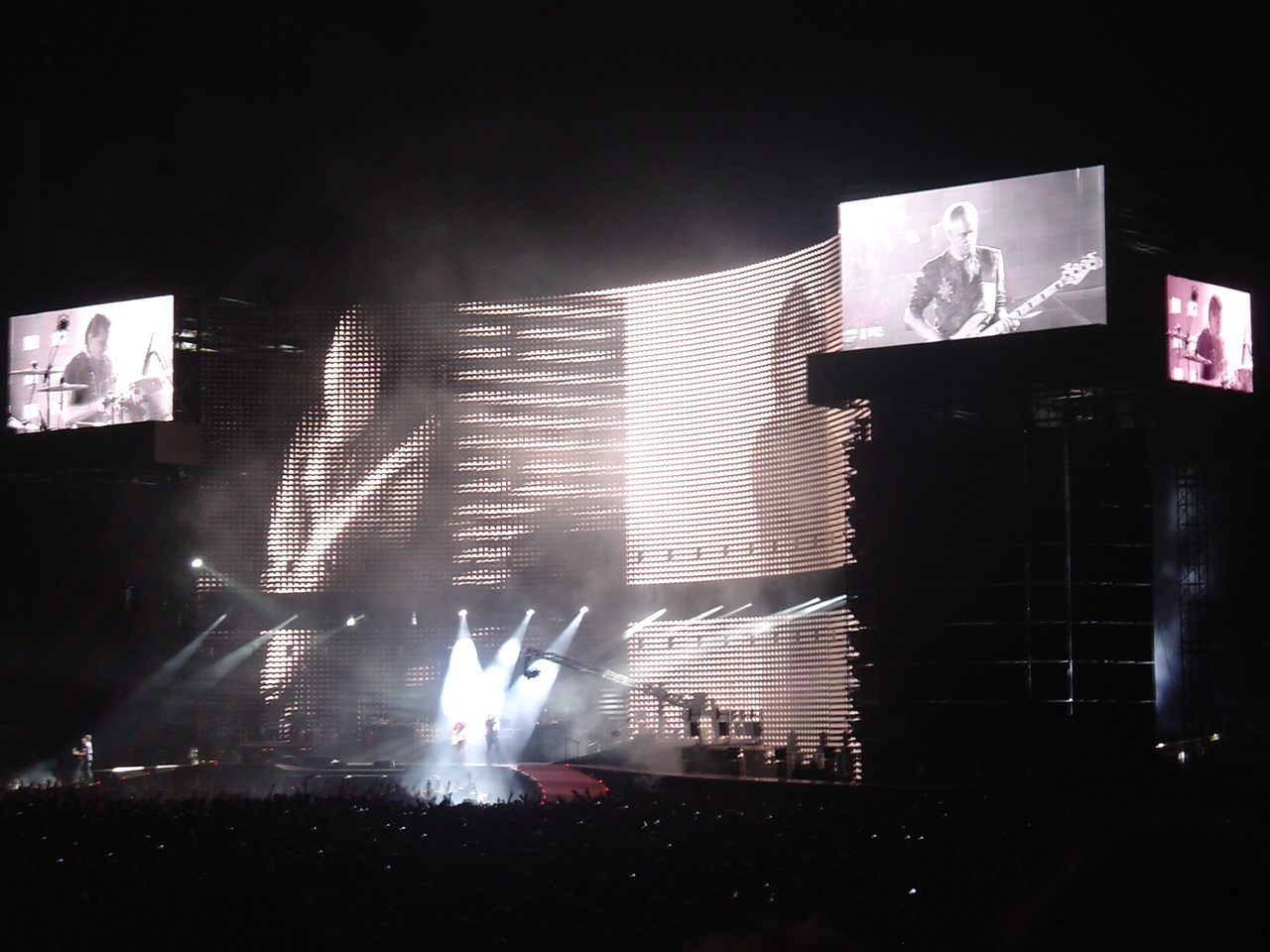 U2 performing in Santiago de Chile during the Vertigo Tour, while being filmed with a 3D camera for the film U2 3D